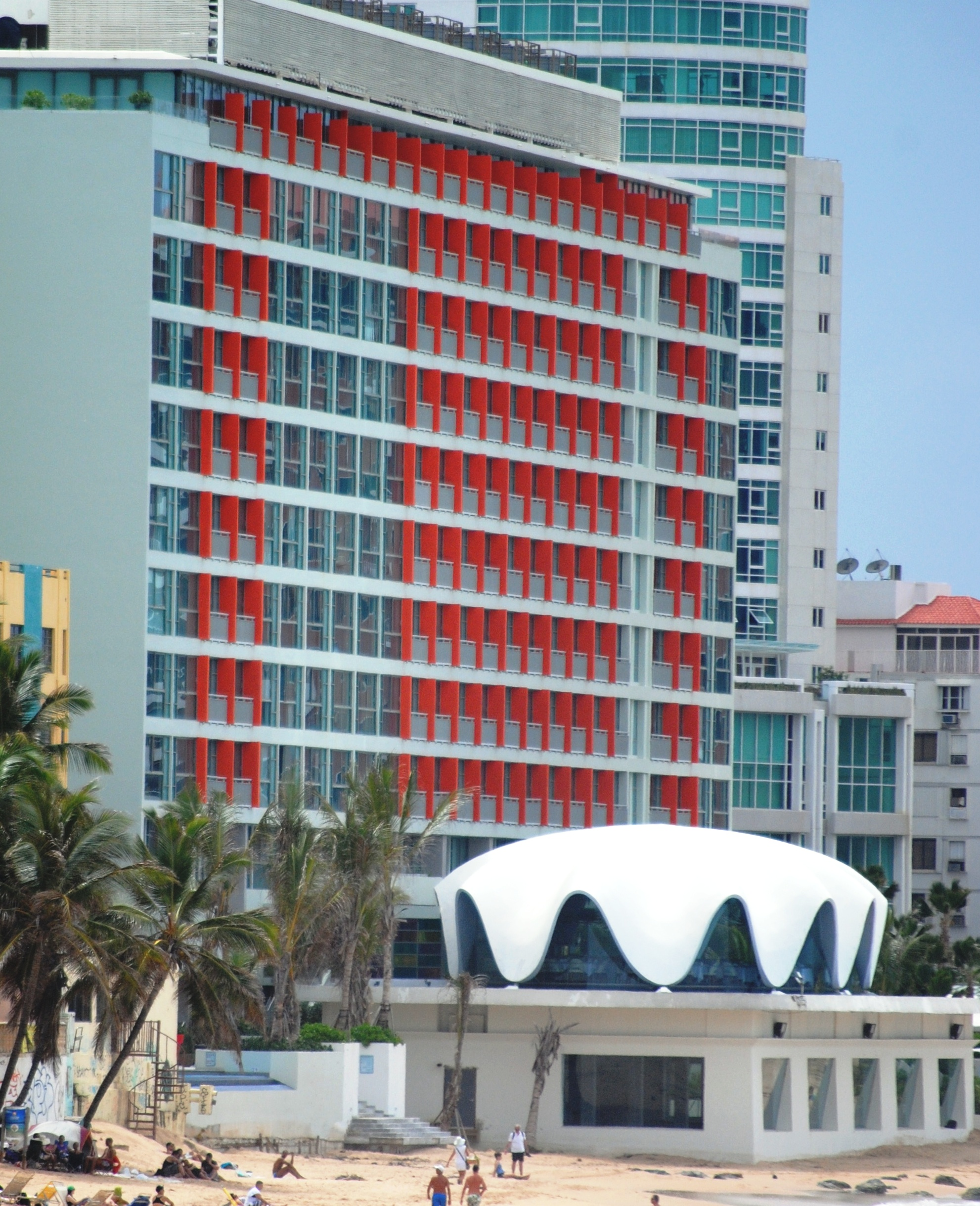 La Concha, a Renaissance Resort in San Juan, with seashell structure by Mario Salvadori